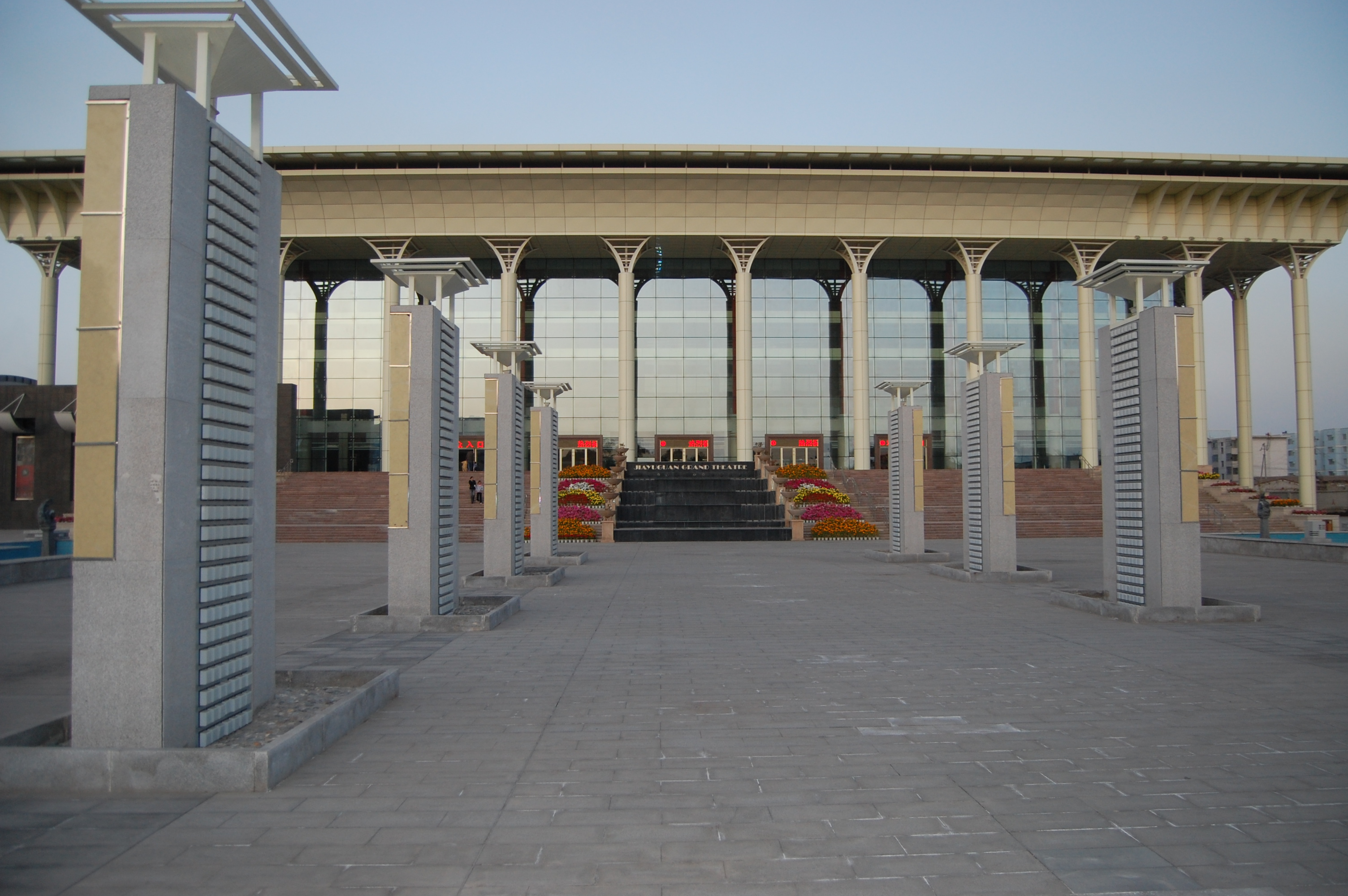 Theatre of Jiayuguan